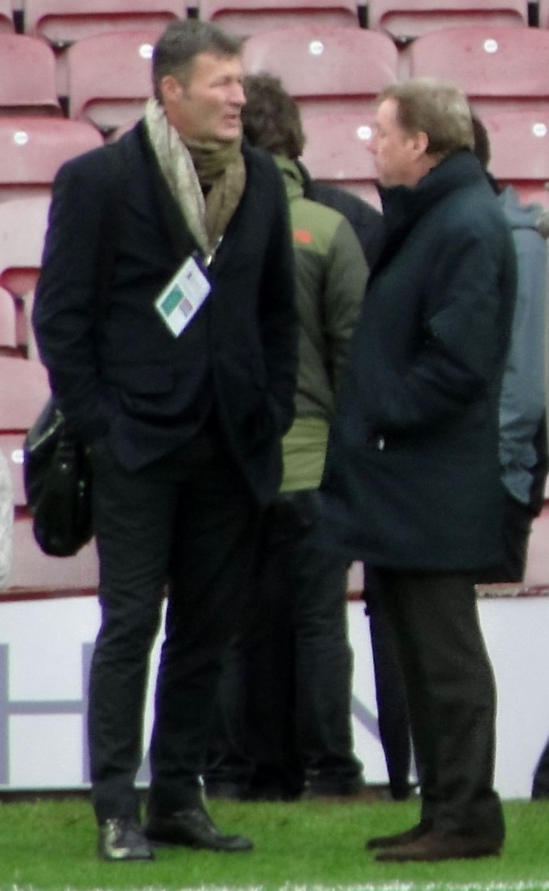 Danish footballer, Marc Rieper (left) with Harry Redknapp at the Boleyn Ground, January 2016